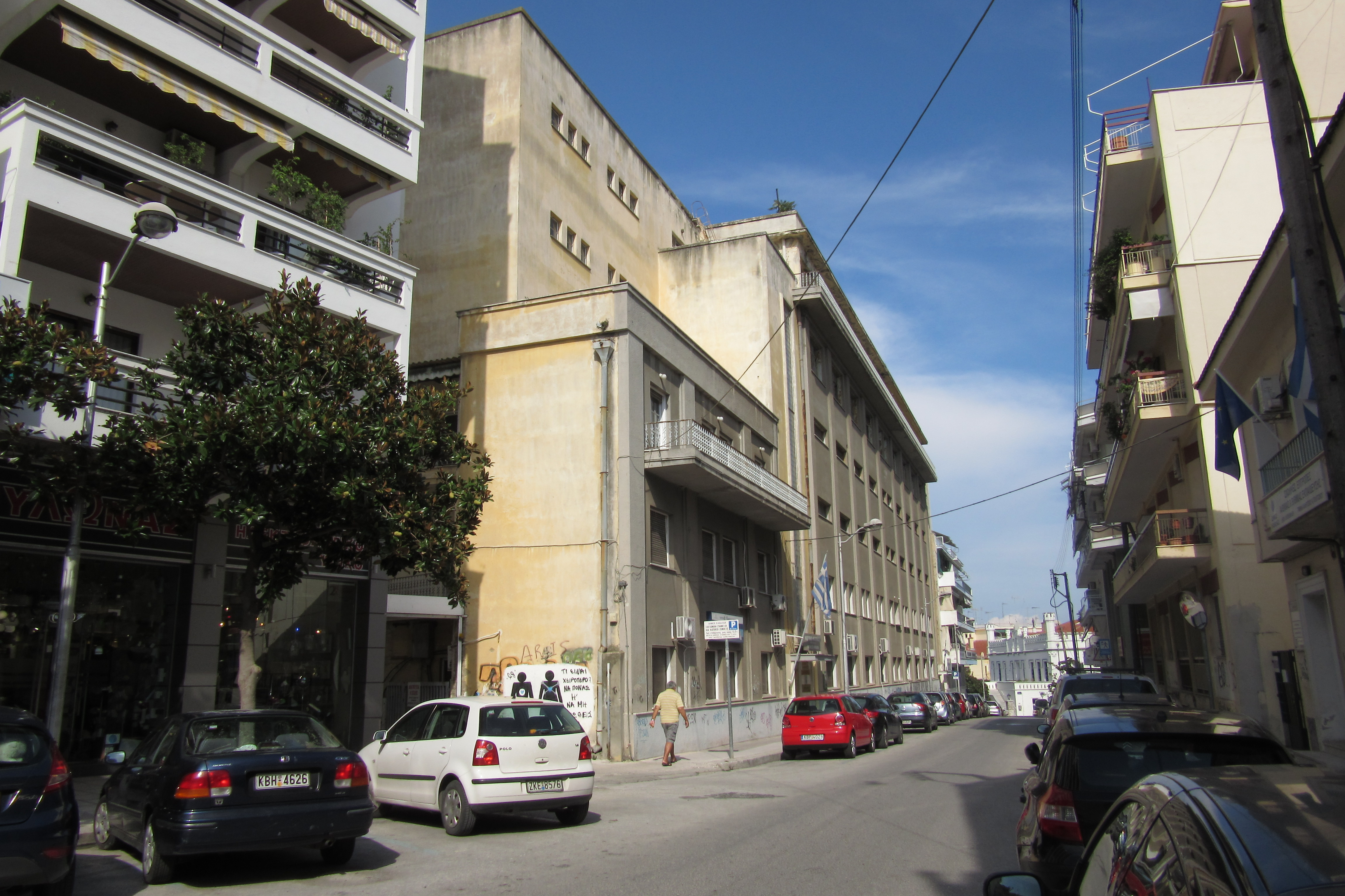 The Tobacco museum in Kavala Grece